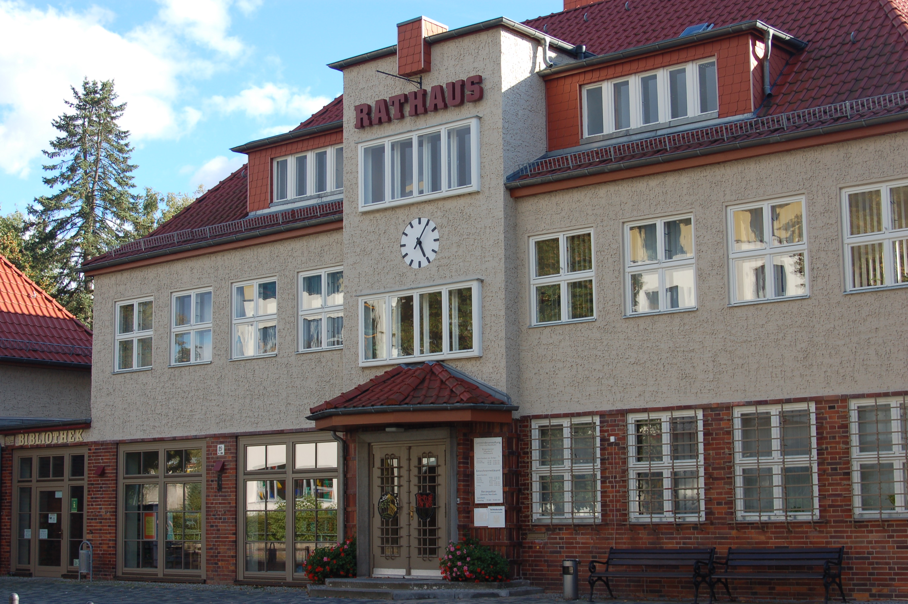 Rathaus Glienicke/NordbahnThis is a photograph of an architectural monument.It is on the list of cultural monuments of Glienicke/Nordbahn